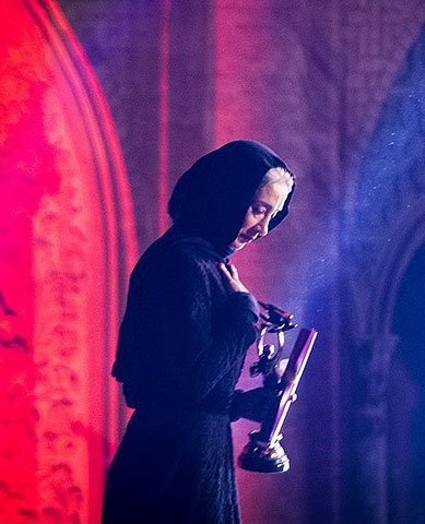 17th Iranian cinema celebration was held in Masoudieh Mansion by Iran's House of Cinema.